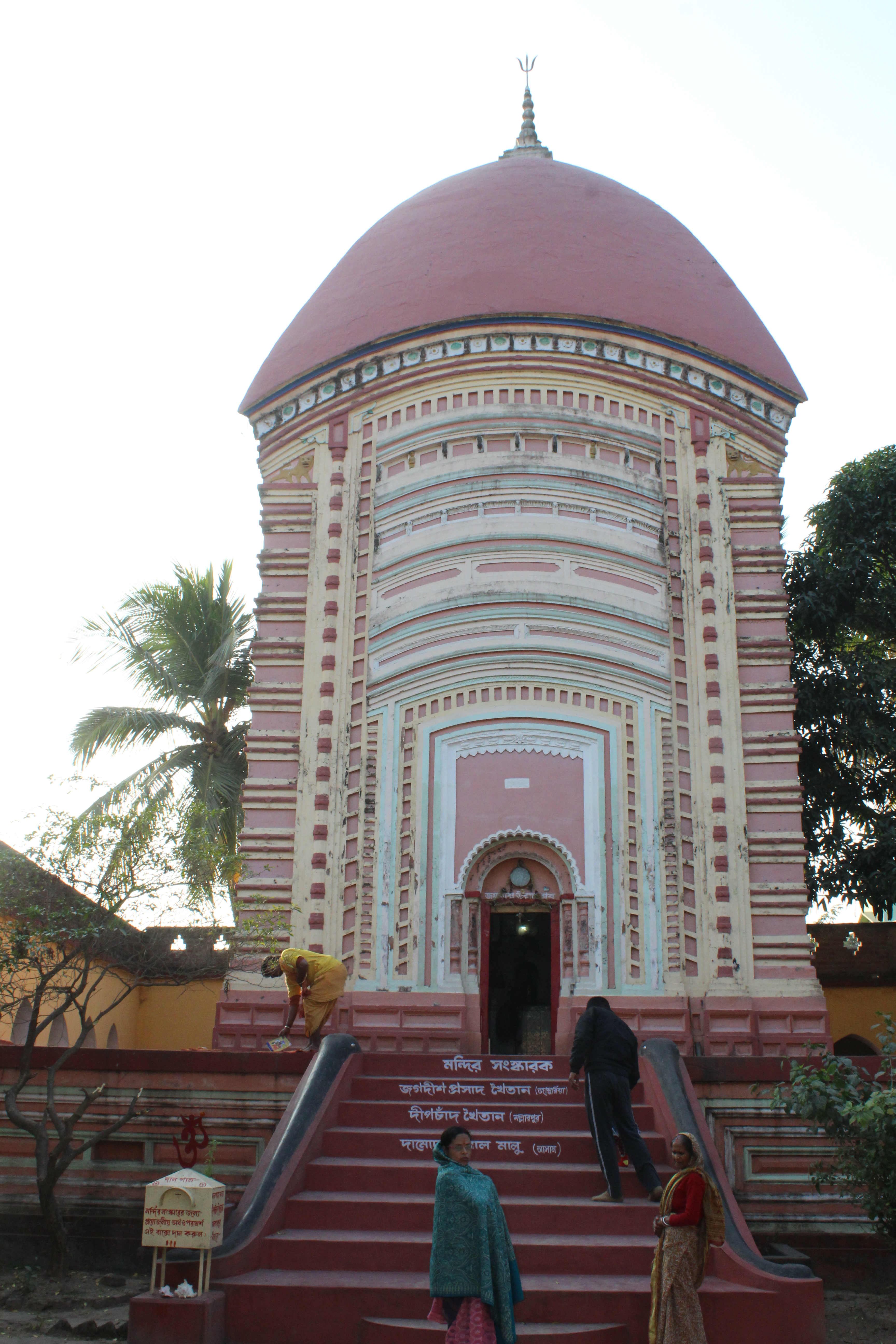 Dabukeswar temple at Dabuk in Birbhum